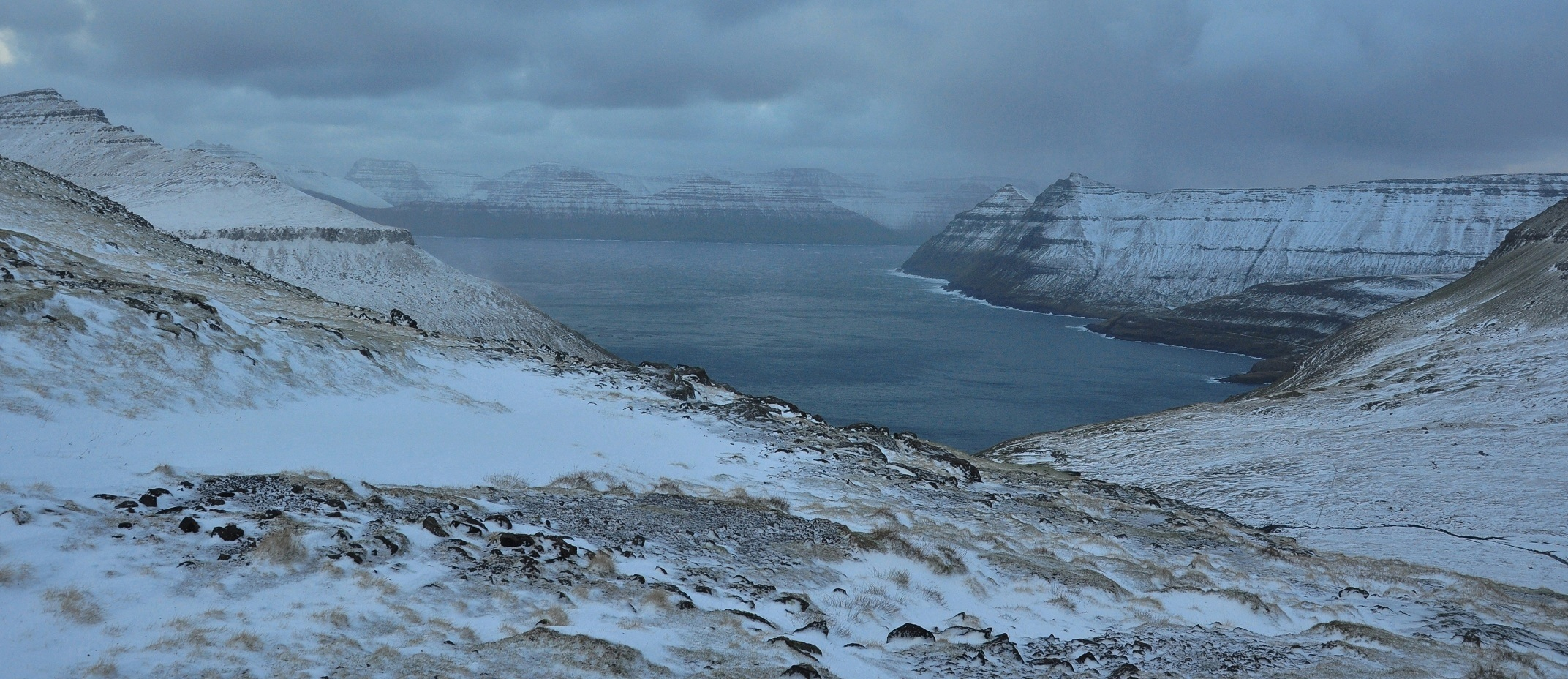 View over the Funningsfjørður (fjord) on a bleak October evening, seen from a point high above Funningur (Faroe Islands, Eysturoy). In the distance is the island Kalsoy.